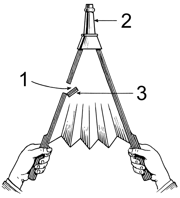 line art drawing of bellows: (1) entrance for air, (2) nozzle, (3) valve